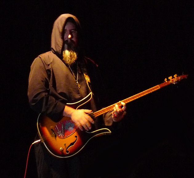 Trey Spruance of Secret Chiefs 3, an American avant-garde music group from San Francisco, performing at Williamsburg Music Hall, Brooklyn, New York, May 30, 2009